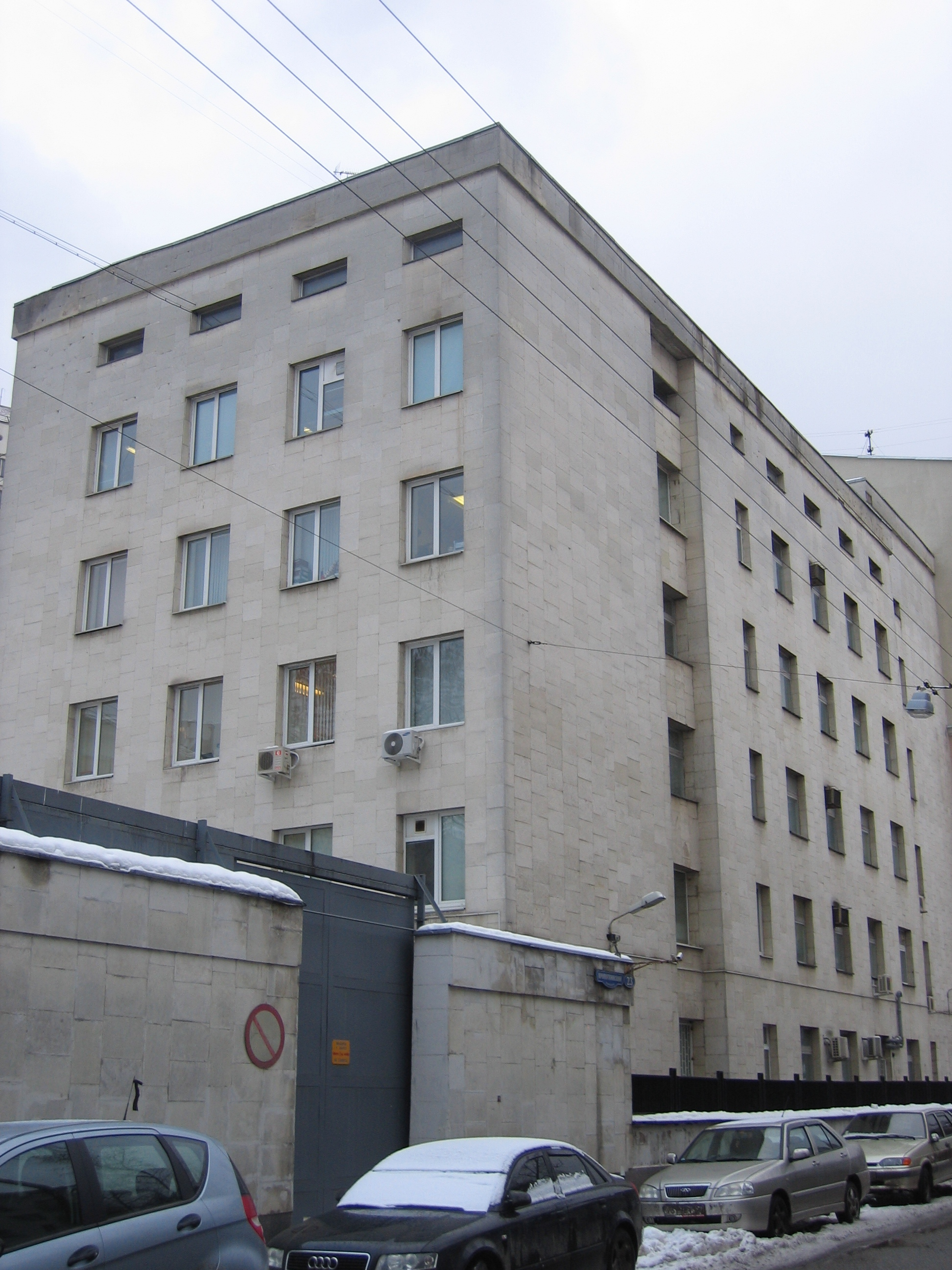 One of the buildings of the Moscow Serbsky Institute